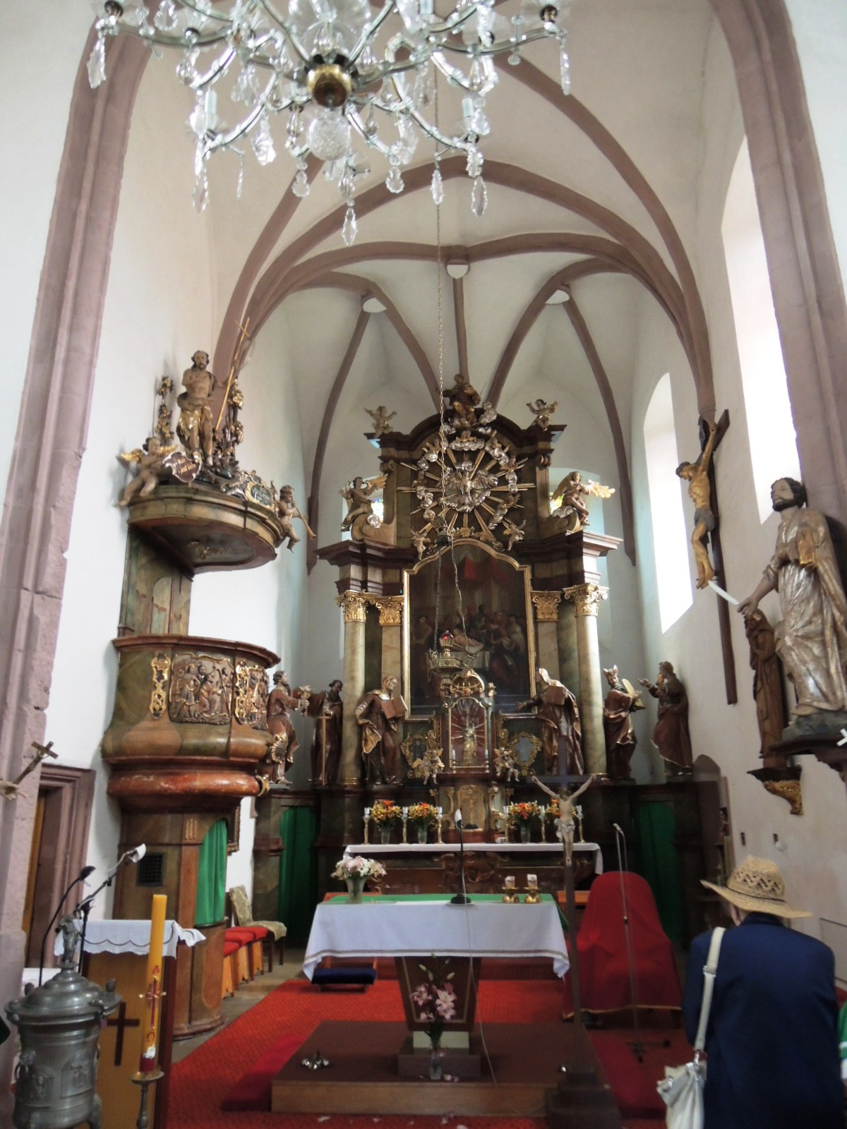 Interior of the Church of Saint Bartholomew (Kondrac)